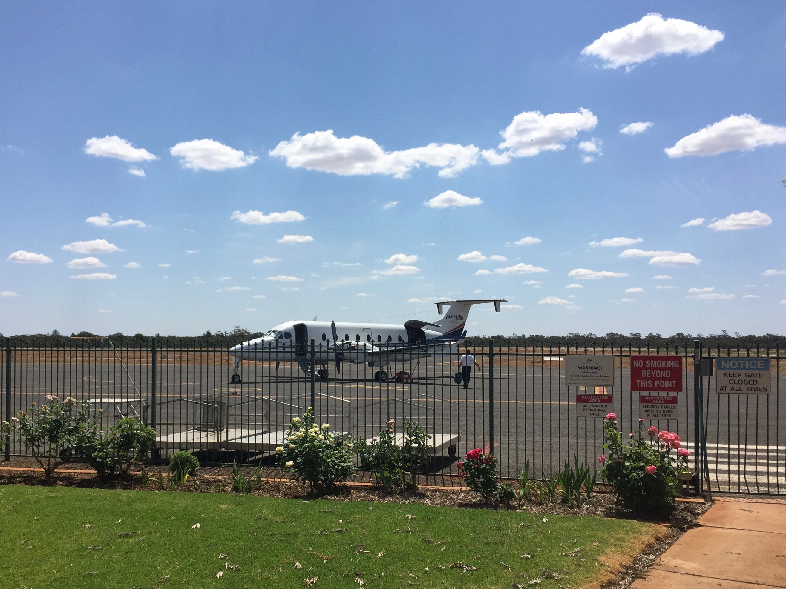 Air Link Beechcraft 1900D on the parking apron at Cobar airport in New South Wales, Australia